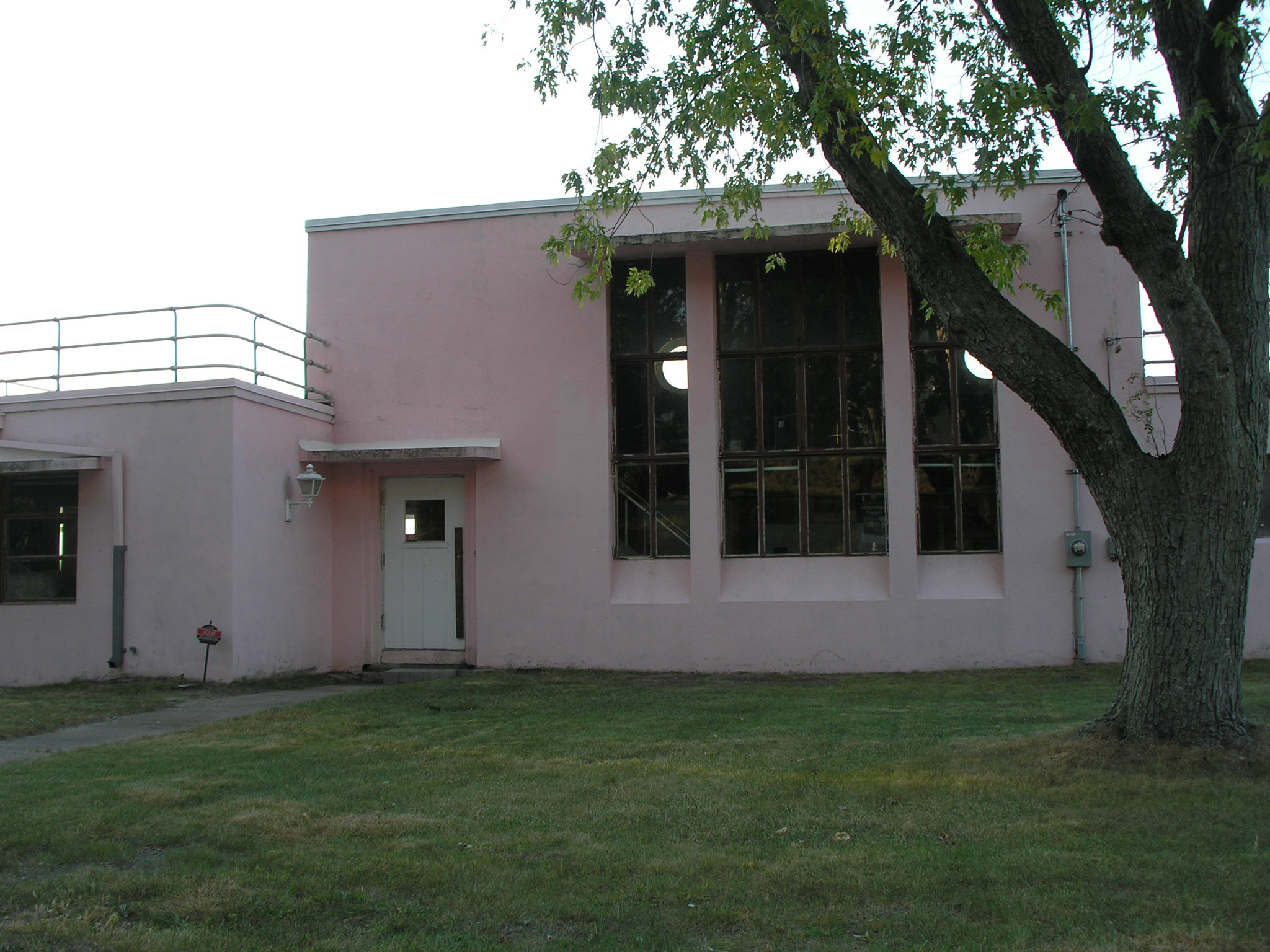 The Florida Tropical House in Beverly Shores, Indiana.